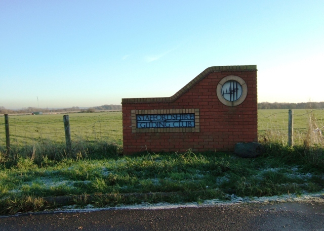 Staffordshire Gliding Club The north end of the former Seighford airfield has been home to the Staffordshire Gliding Club since 1992. Seighford Airfield was built on 450 acres of requisitioned farmland in 1941. It became operational in September 1942 as home to 30 Operational Training Unit RAF which, initially at least, flew Wellington bombers. The airfield became non-operational in 1947 and was taken over in 1956 by Boulton and Paul who used it as a test site until 1965 for a range of famous aircraft marques including the Viscount and the Lightning. The main runway survives just behind the green building in the middle distance.